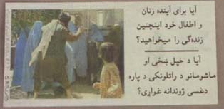 Example of the U.S. propaganda pamphlets dropped over Mazari Sharif in November 2001.